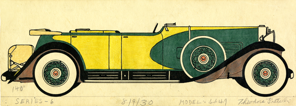 The original drawing has been donated to the Museum of Fine Arts, Boston, but the image posted here was made by me, T. W. Pietsch III. Please see the correspondence below from Jennifer C. Riley, Head of Image Licensing and Digital Archives Museum of Fine Arts, Boston. You may tell them that while the Museum of Fine Arts, Boston owns the artwork; we do not retain the copyright to Theodore Wells Pietsch II’s images. Best, Jennifer Jennifer Riley Head of Image Licensing and Digital Archives Museum of Fine Arts, Boston | 617-369-3777 Dear Mr. Pietsch, Regarding copyright, you retain copyright to any photos you took of the drawings made by your father. The copyright to the artworks and photographs does not revert to the Museum automatically upon donation of the works. The copyright to the photographs that you took stays with you so you have every right to upload those photos to Wikipedia. I am happy to provide you with language necessary for you to pass on to Wikipedia so you can reload the images. Since the Museum does not, in fact, hold the copyright to those photos, we cannot upload them. Best, Jennifer Jennifer Riley Head of Image Licensing and Digital Archives Museum of Fine Arts, Boston | 617-369-3777